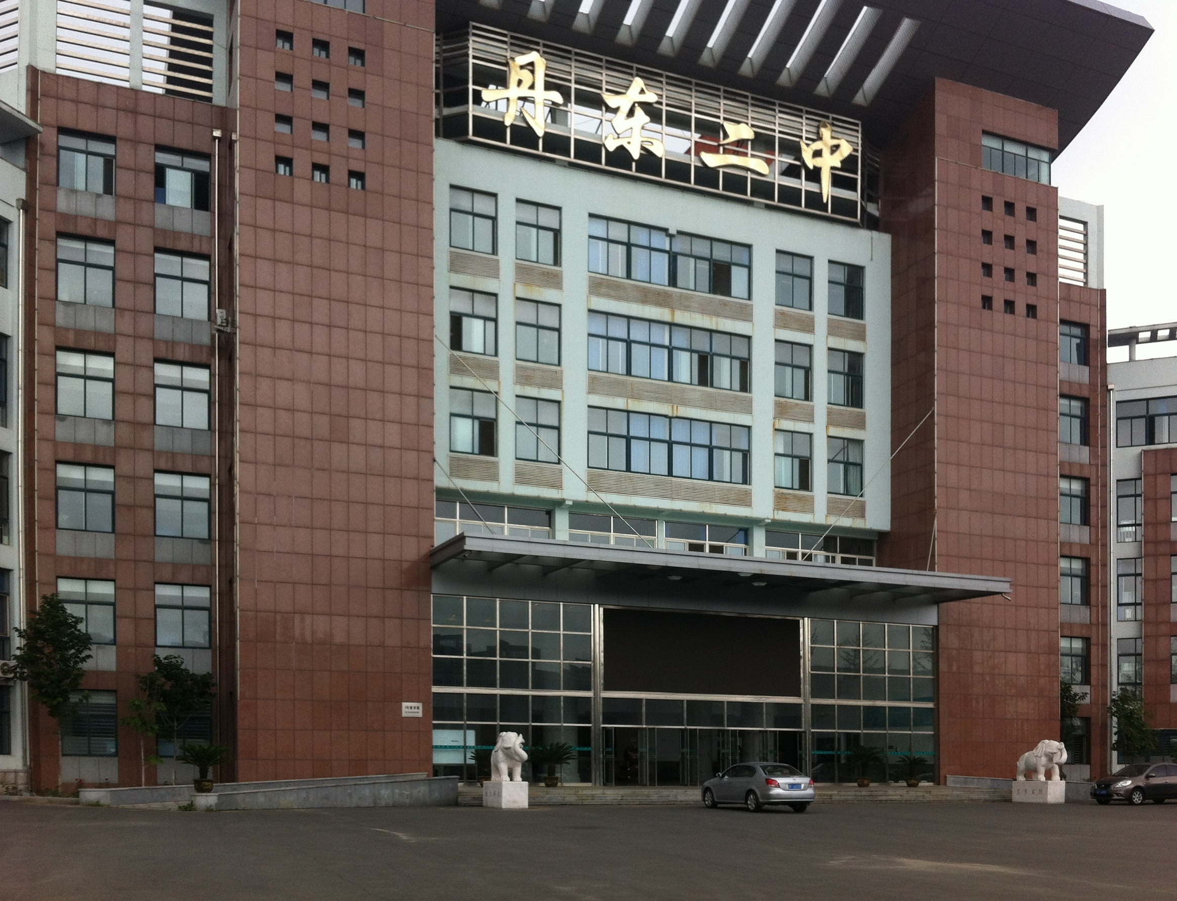 The main building of Dandong No.2 High School.